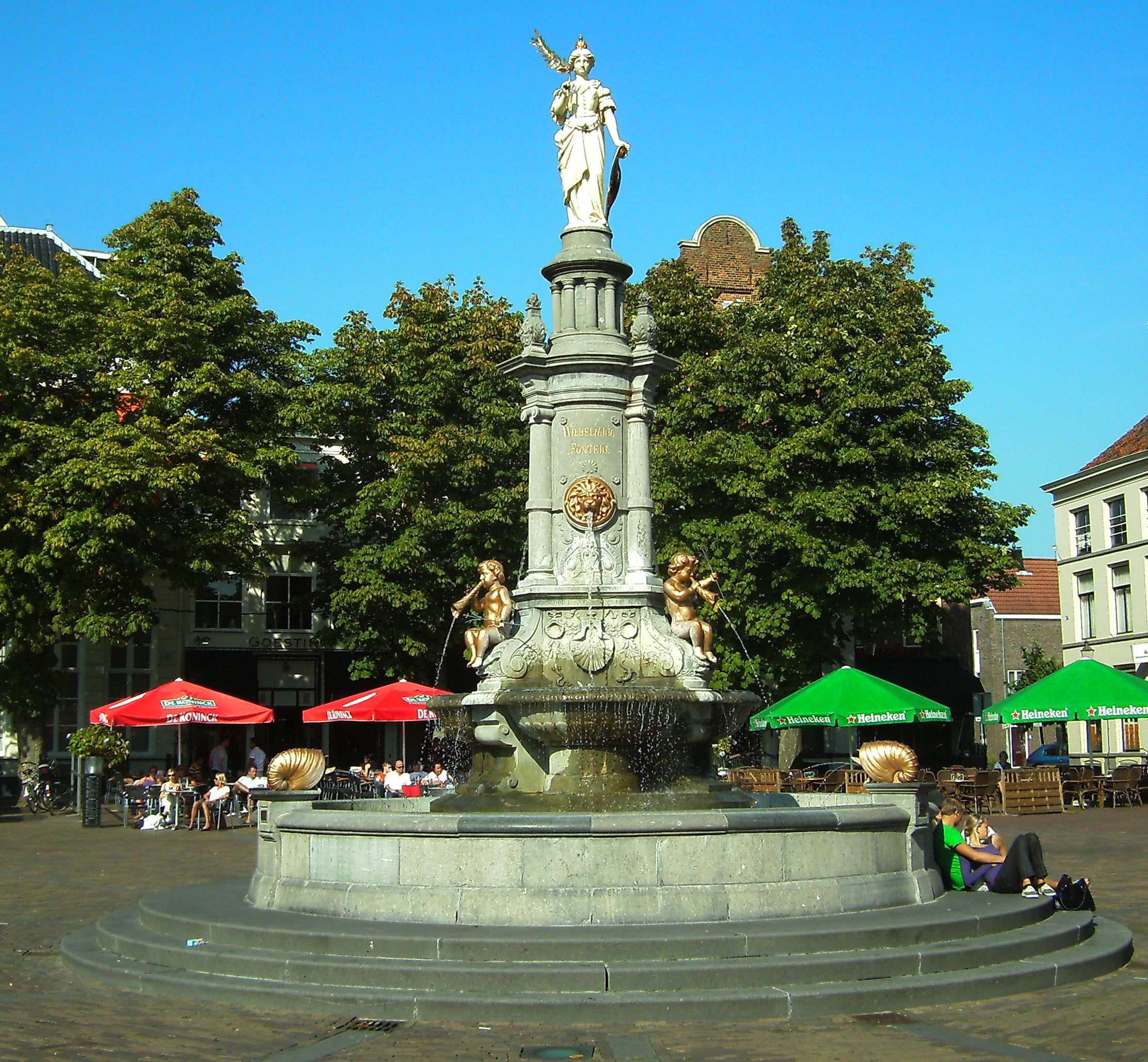 Deventer town-maiden fountain, erected to celebrate the coronation of queen Wilhelmina in 1898 and the completion of a piped-water en sewage system.